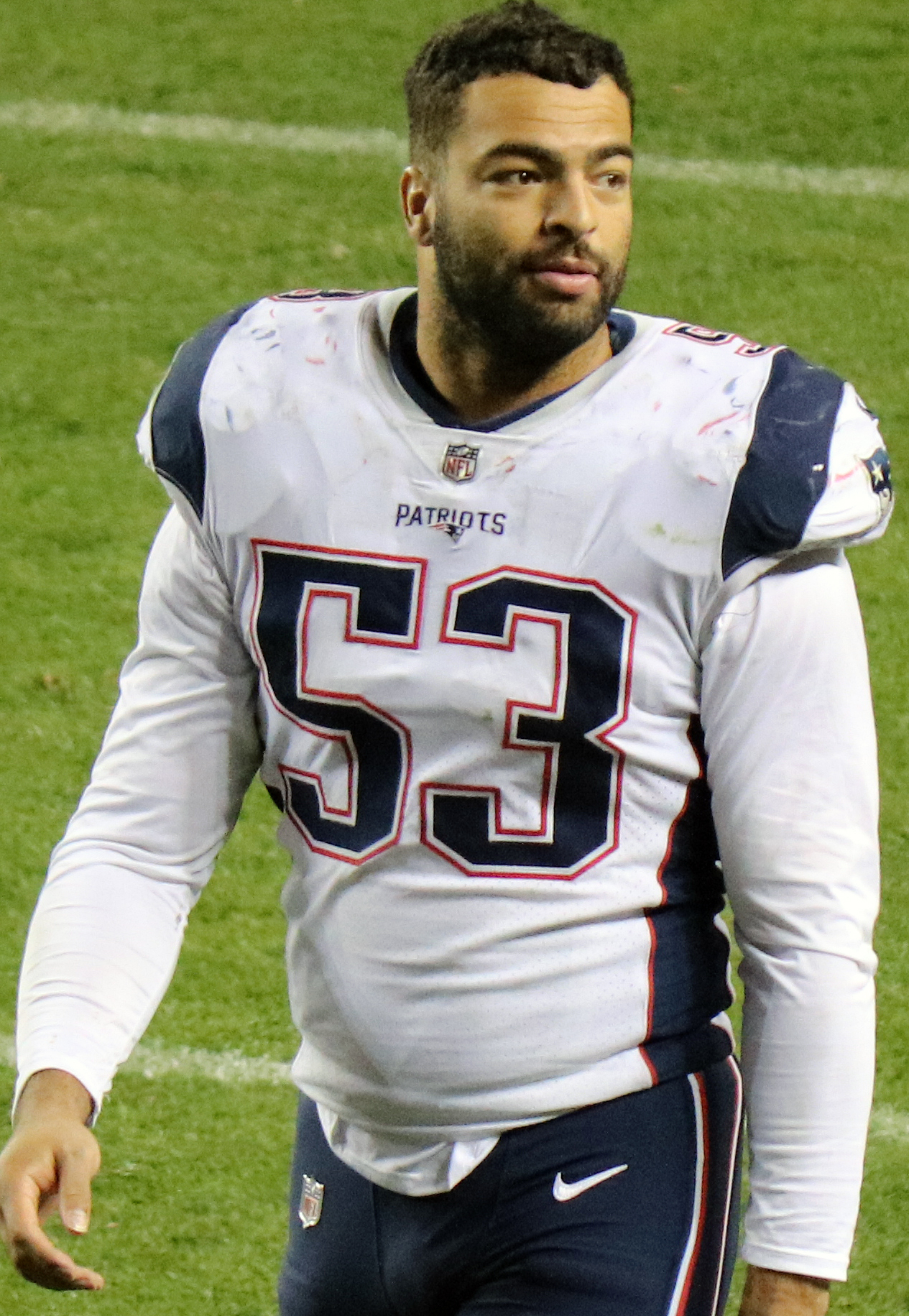 Kyle Van Noy, a player on the National Football League.